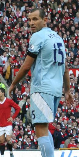 Bulgarian footballer Martin Petrov